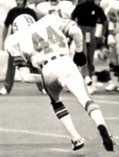 Miami Dolphins left cornerback Paul Lankford playing defense against the Houston Oilers during a 1985 away game.